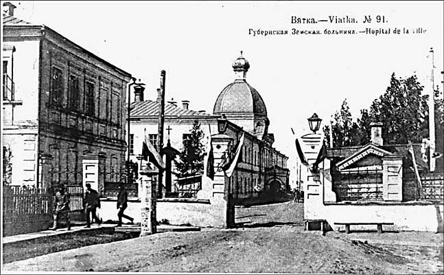 The Provincial Hospital of the City of Vyatka